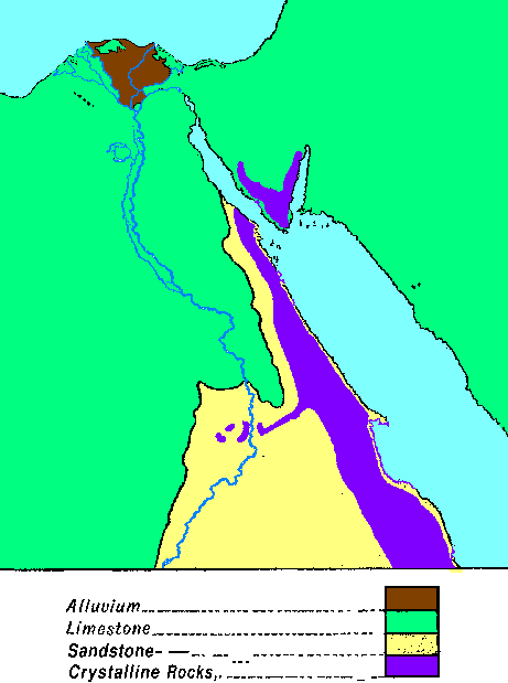 An illustration from the Encyclopaedia Biblica, a 1903 publication which is now in the public domain. Map 3 for article "Egypt". Image of the Geology of Egypt. Colour added artificially by uploader (Newman Luke (talk)), from a black and white original.